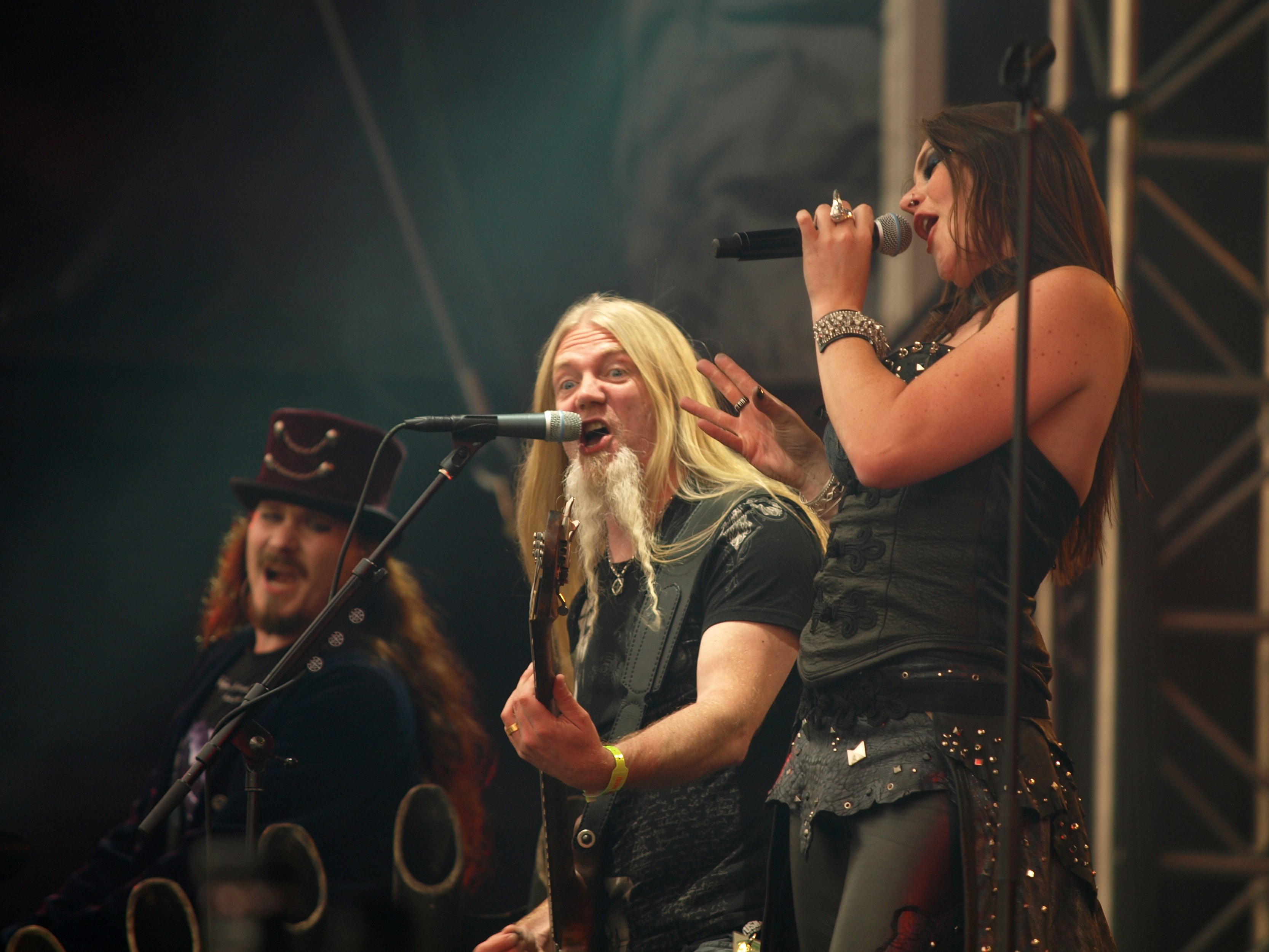 Finnish band Nightwish at Tuska Open Air 2013